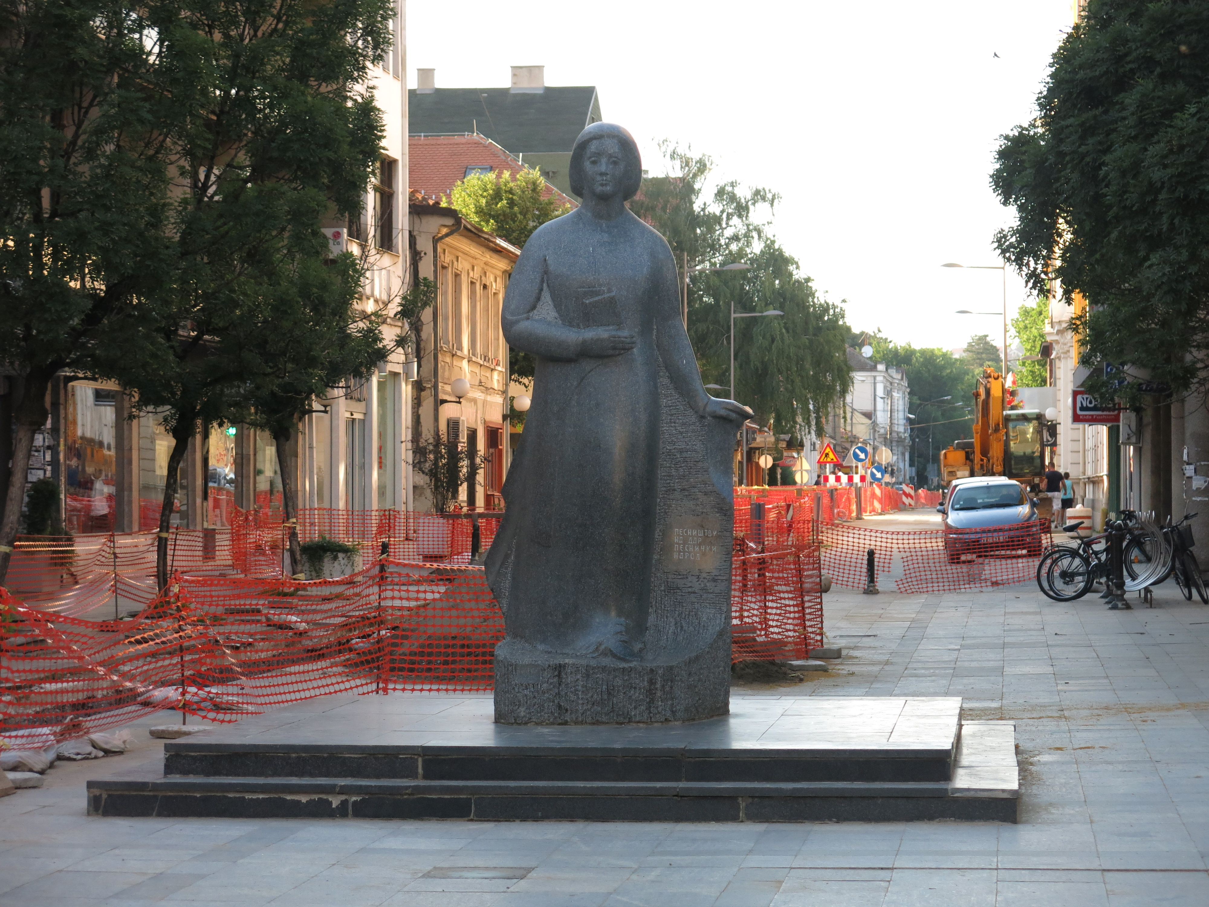 Valjevo, Monument to Desanka Maksimović